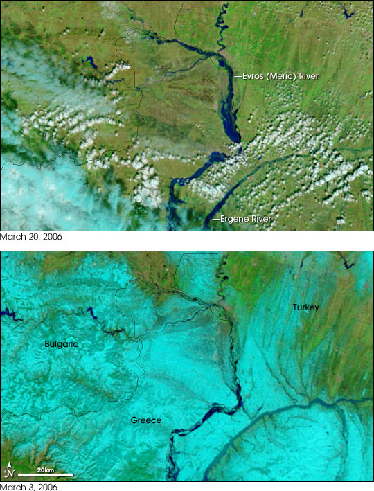 Satellite image of floods along the Evros (Meric) river in 2006.